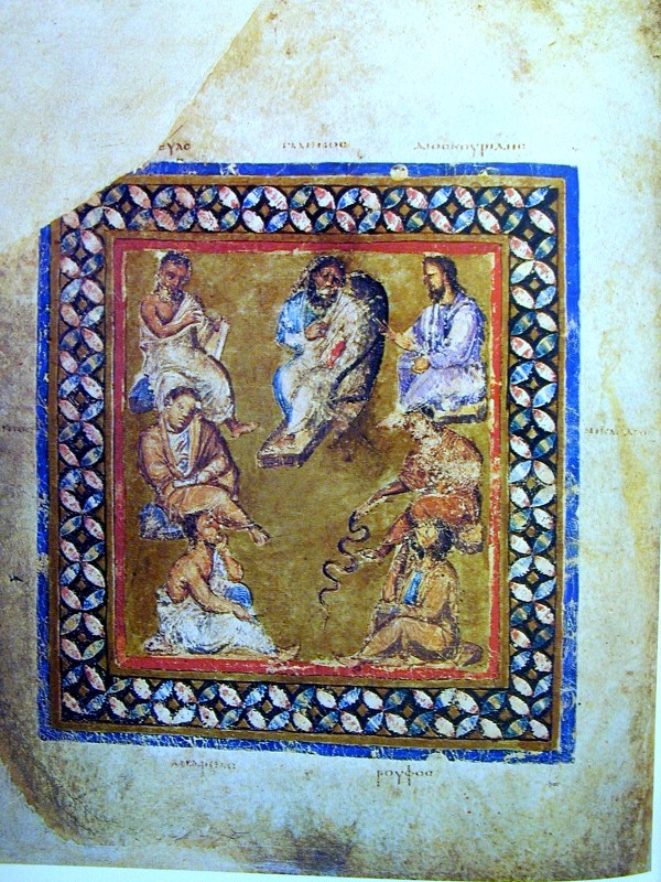 One of two illustrations of 7 physicians from the Vienna Dioscurides.